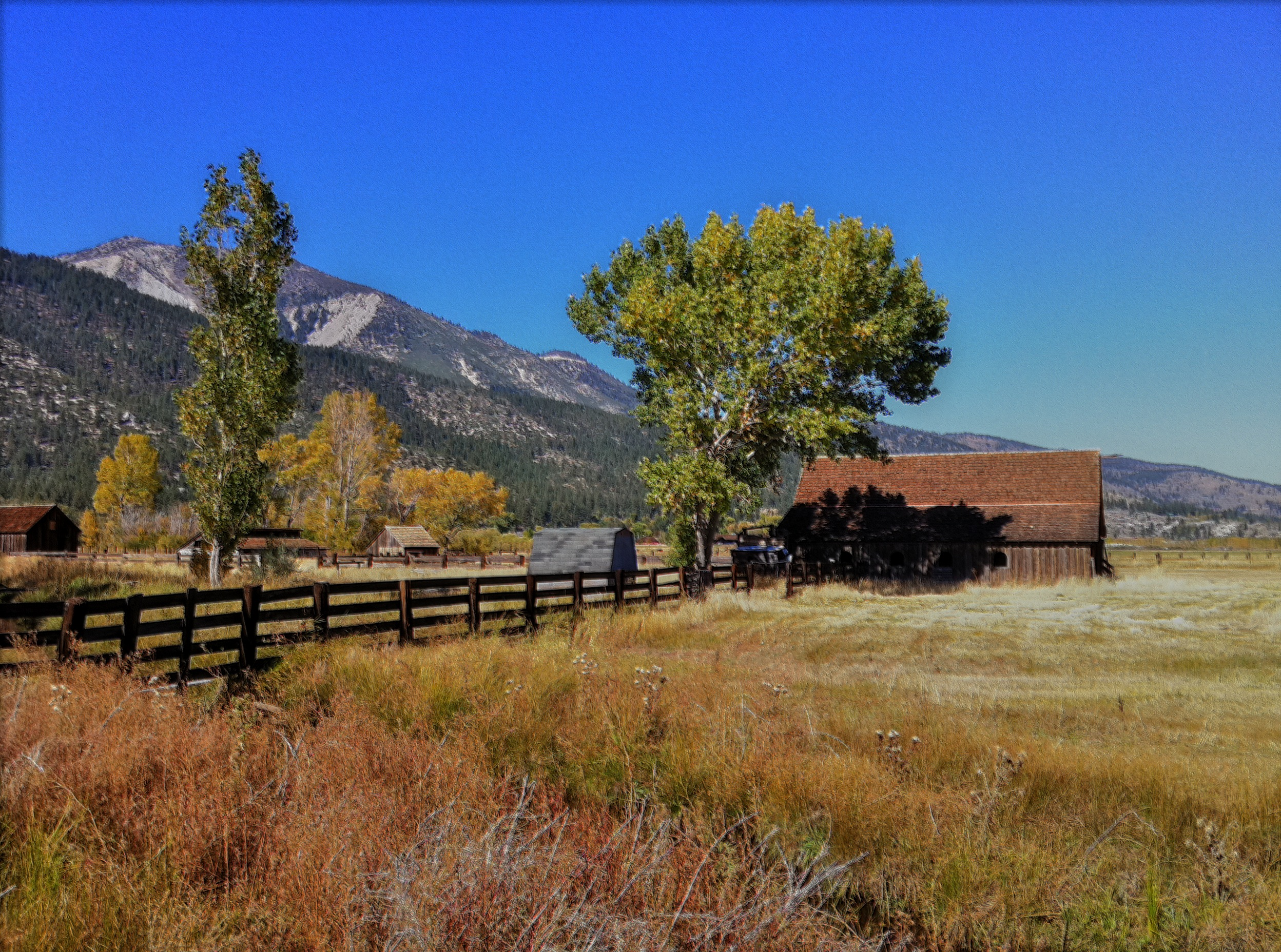 Old ranch at Wilson Commons Park with Slide Mountain in the background. AKA Twaddle-Pedroli Ranch